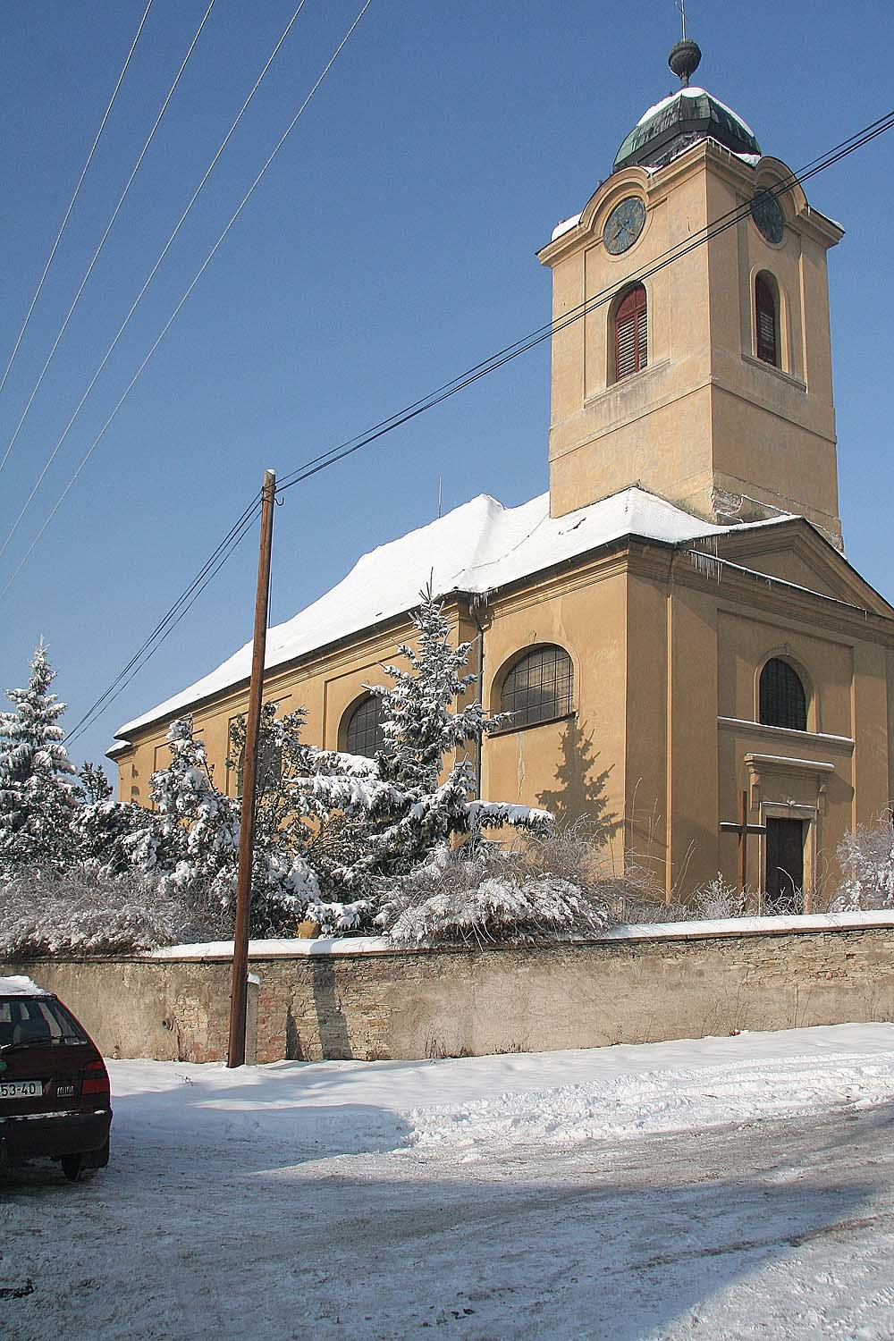 Saint Andrew church in village of Sány, Nymburk District, Czech Republic autor: Prazak date: 26. 1. 2007